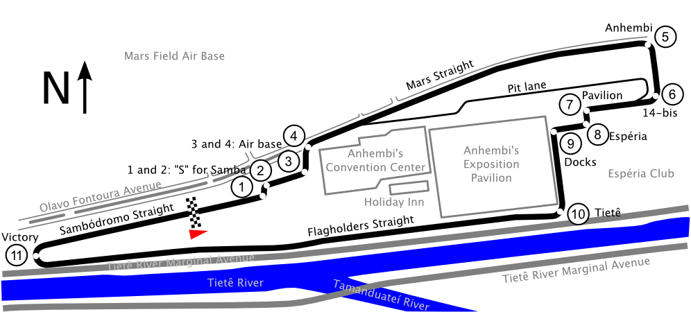 Anhembi circuit map for São Paulo Indy 300 race.